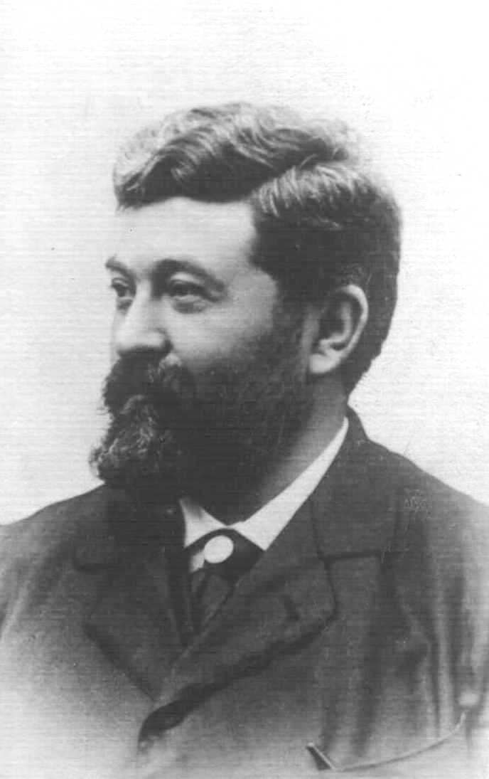 Ion Cantacuzino